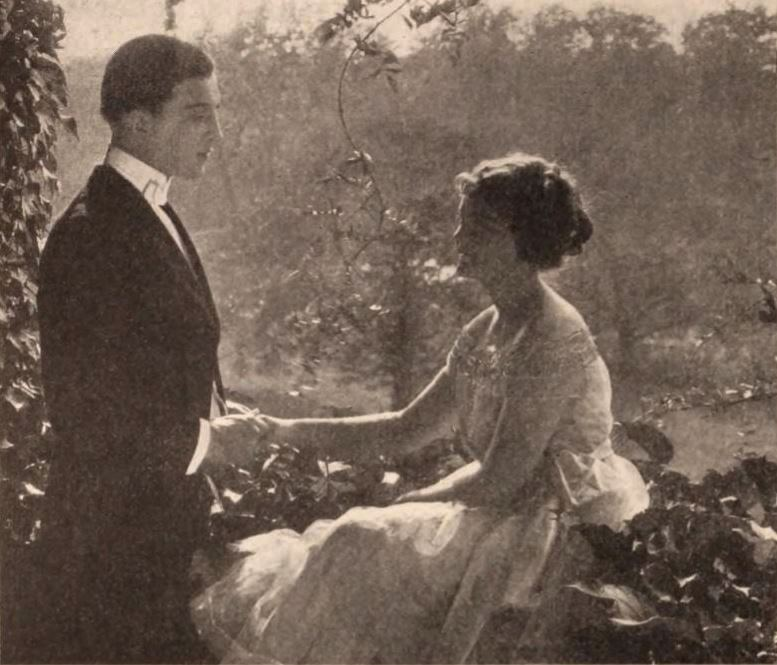 Still from the American drama film Sunshine Harbor (1922) with Ralf Harolde (1899–1974) (listed in the caption as Ralph Barry Harold) and Margaret Beecher, on page 72 of the February 5, 1921 Exhibitors Herald.